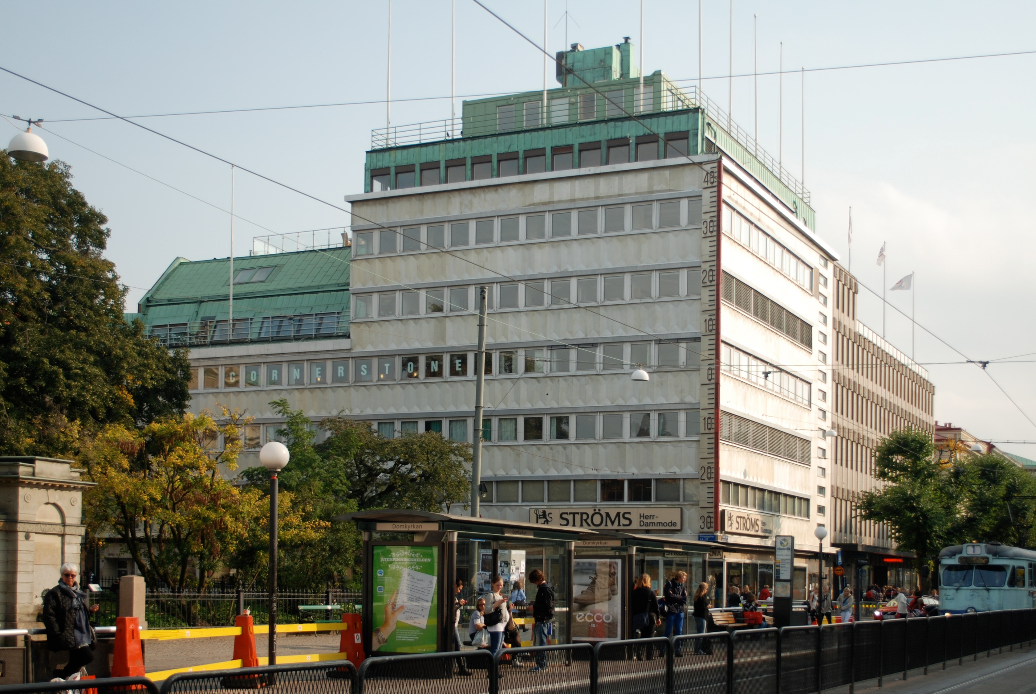 Ströms. Department stores from 1936.